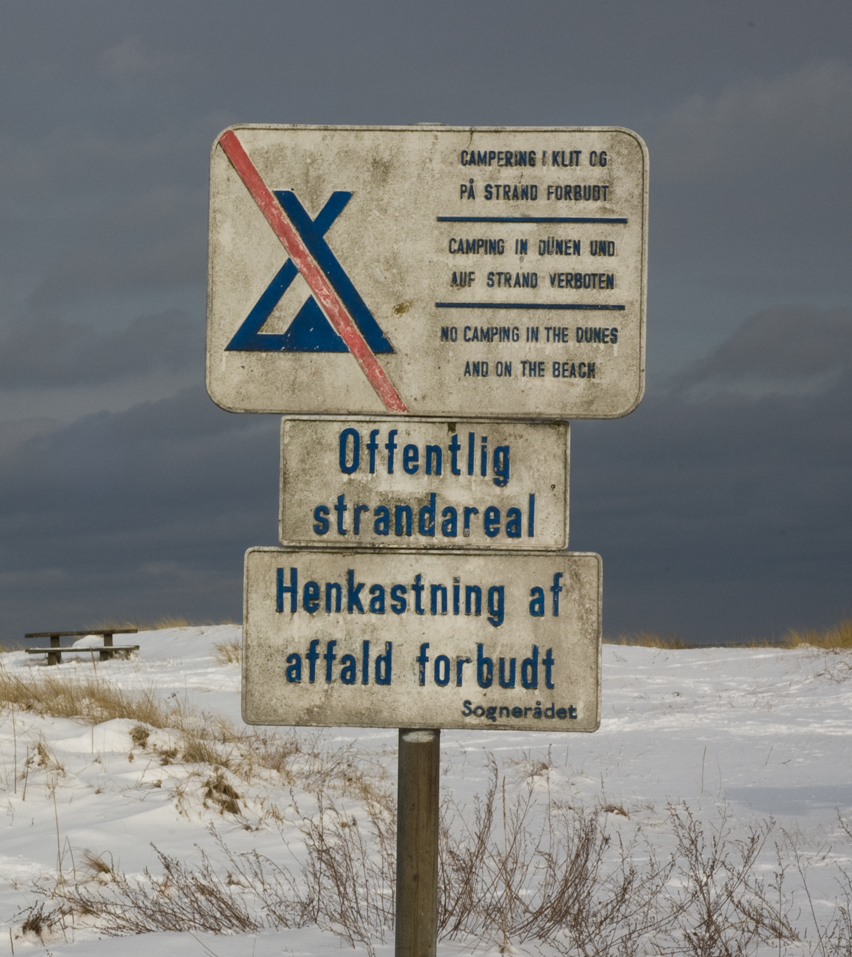 Regulatory sign by the former Danish local governing body, sogneråd which existed until 1970. Top-sign prohibits camping in the dunes and on the beach. Middle-sign announces that it is a public beach area. Bottom sign prohibits littering.